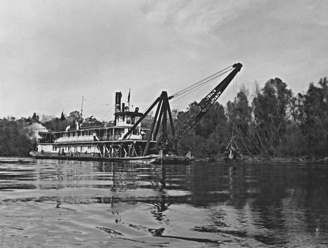 Snag Boat Montgomery working on Apalachicola River, FL. The Montgomery is a steam-powered sternwheel-propelled snagboat, built in 1925 by the Charleston Dry Dock and Machine Company of Charleston, South Carolina, and operated by the United States Army Corps of Engineers.